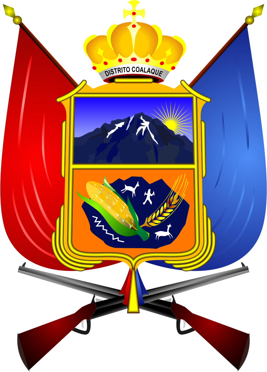 Coalaque District - Province of General Sanchez Cerro - Moquegua Region